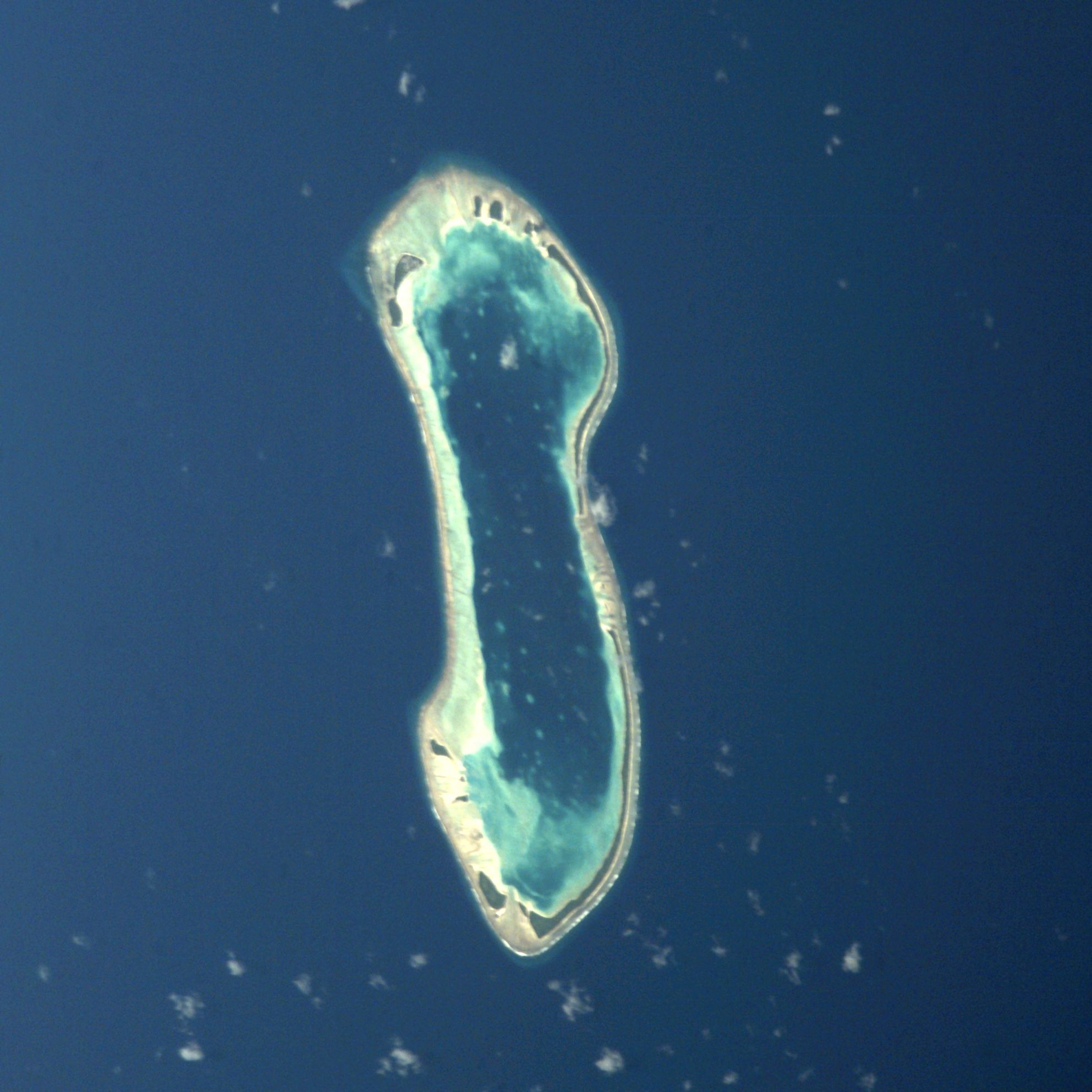 Nukulaelae atoll, Tuvalu, from space